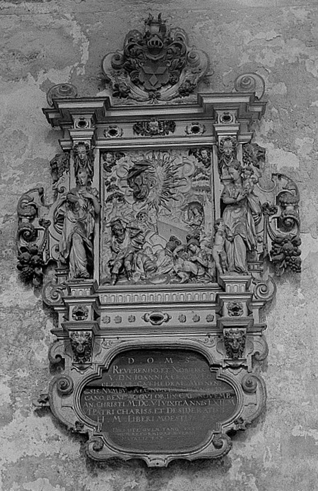 Original image description from the Deutsche FotothekRelief